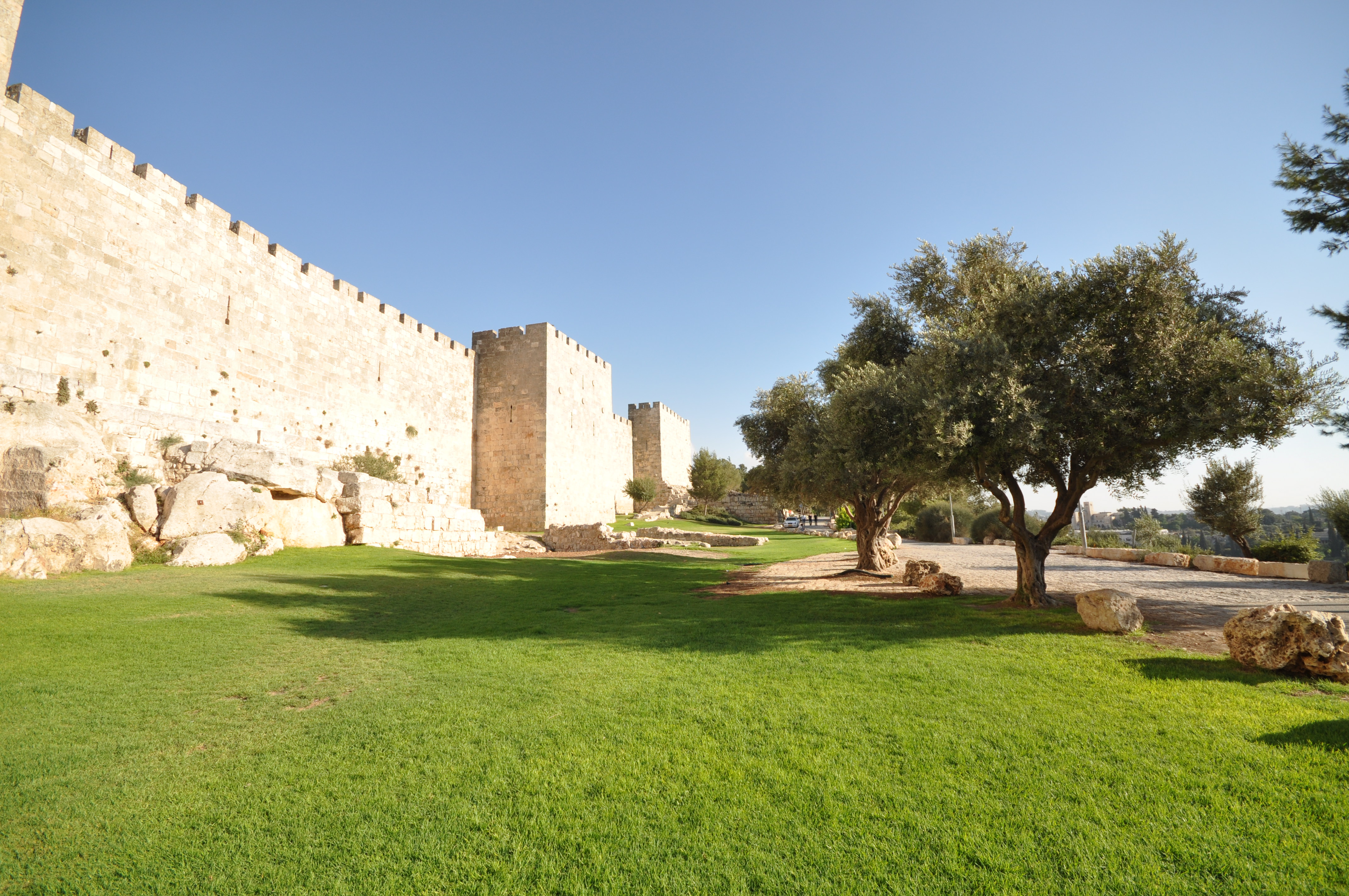 Jaffa Gate ("Gate of the Friend"; also Arabic, Bab Mihrab Daud, "Gate of the Prayer Niche of David"; also David's Gate) is a stone portal in the historic walls of the Old City of Jerusalem. It is one of eight gates in Jerusalem's Old City walls. Jaffa Gate is the only one of the Old City gates positioned at a right angle to the wall. This could have been done as a defensive measure to slow down oncoming attackers, or to orient it in the direction of Jaffa Road, from which pilgrims arrived at the end of their journey from the port of Jaffa